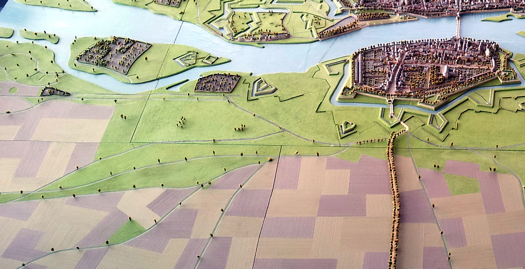 Detail of the Maquette of Maastricht. This scale model was made in 1974-1982 and is a genuine copy of the 18th-century original, made for King Louis XV of France, now in the Palais des Beaux-Arts in Lille. Usually only the central part is on display in Centre Céramique; once in five years the whole maquette is exhibited, as is the case here. This detail shows the south-eastern part of Maastricht.